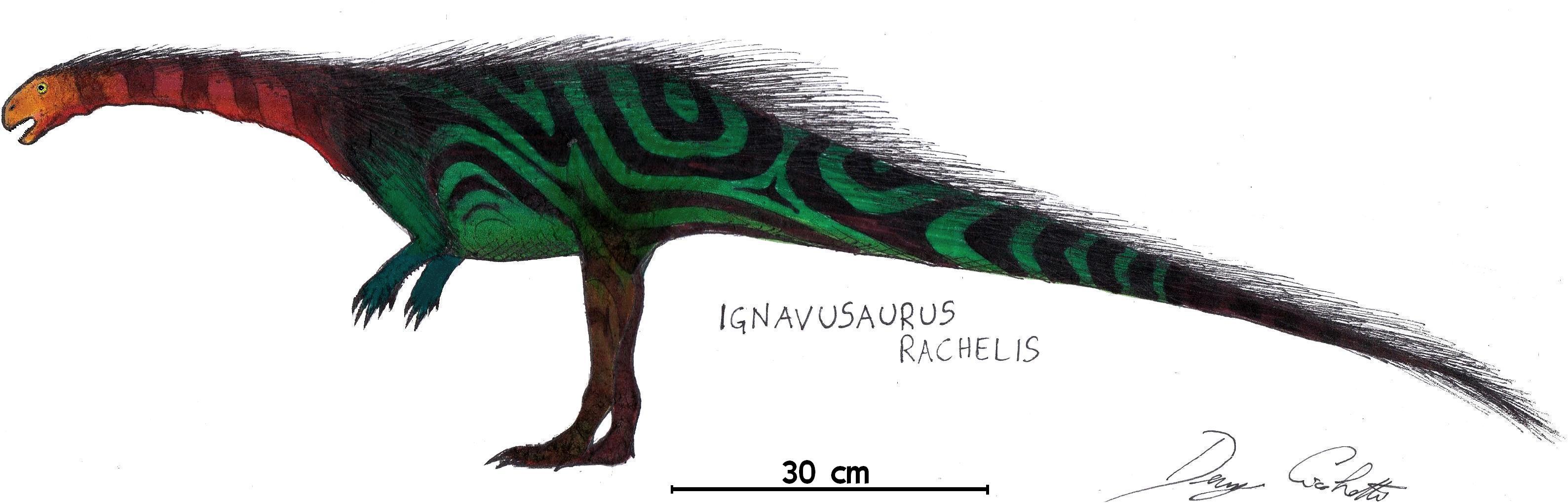 Artist's Impression